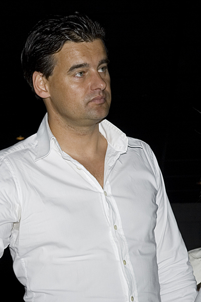 Dutch sports journalist during the 2009 'Open door day' of FC Groningen.